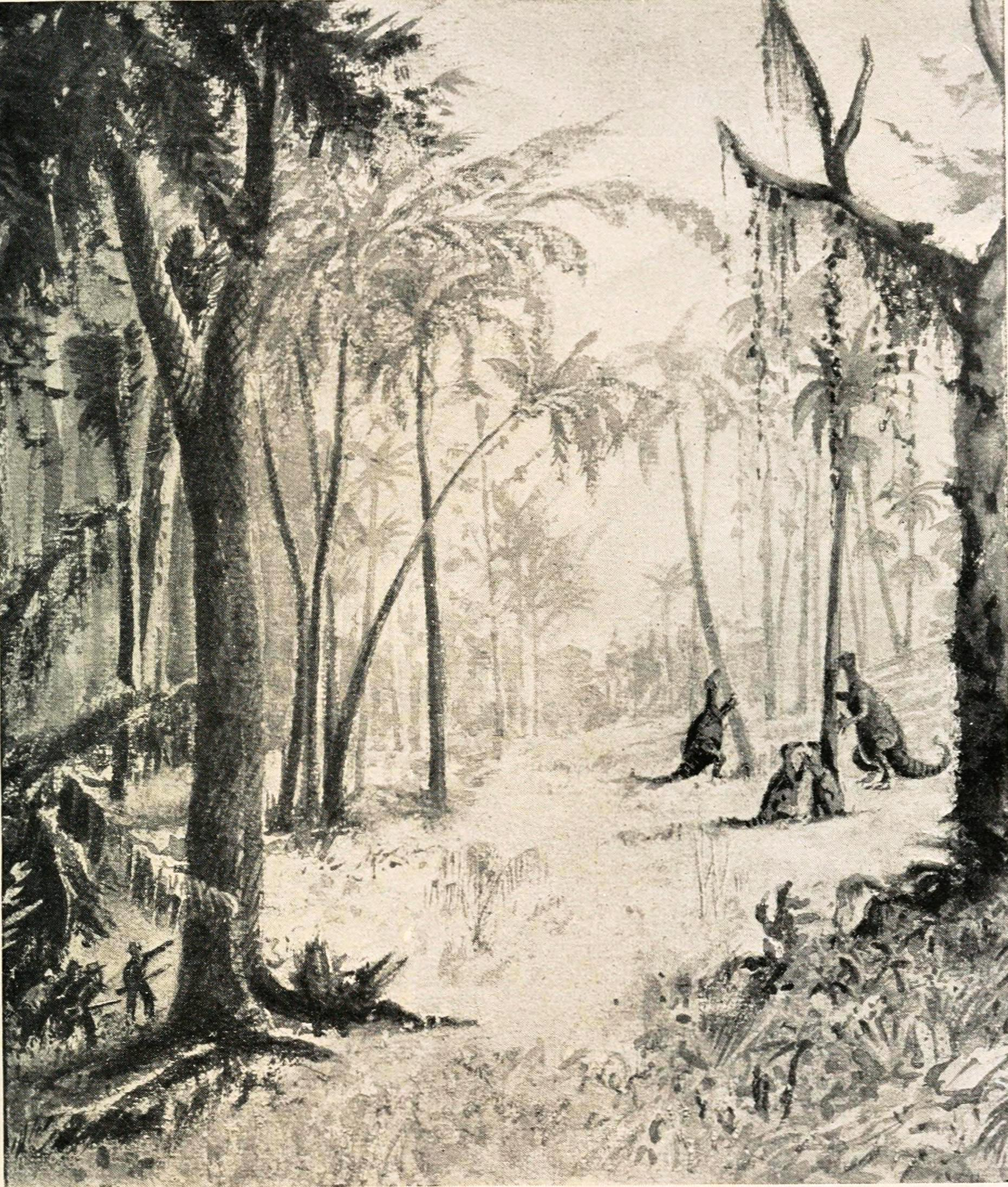 A page scan of a book The Lost World by Arthur Conan Doyleimage cropped, captions removed